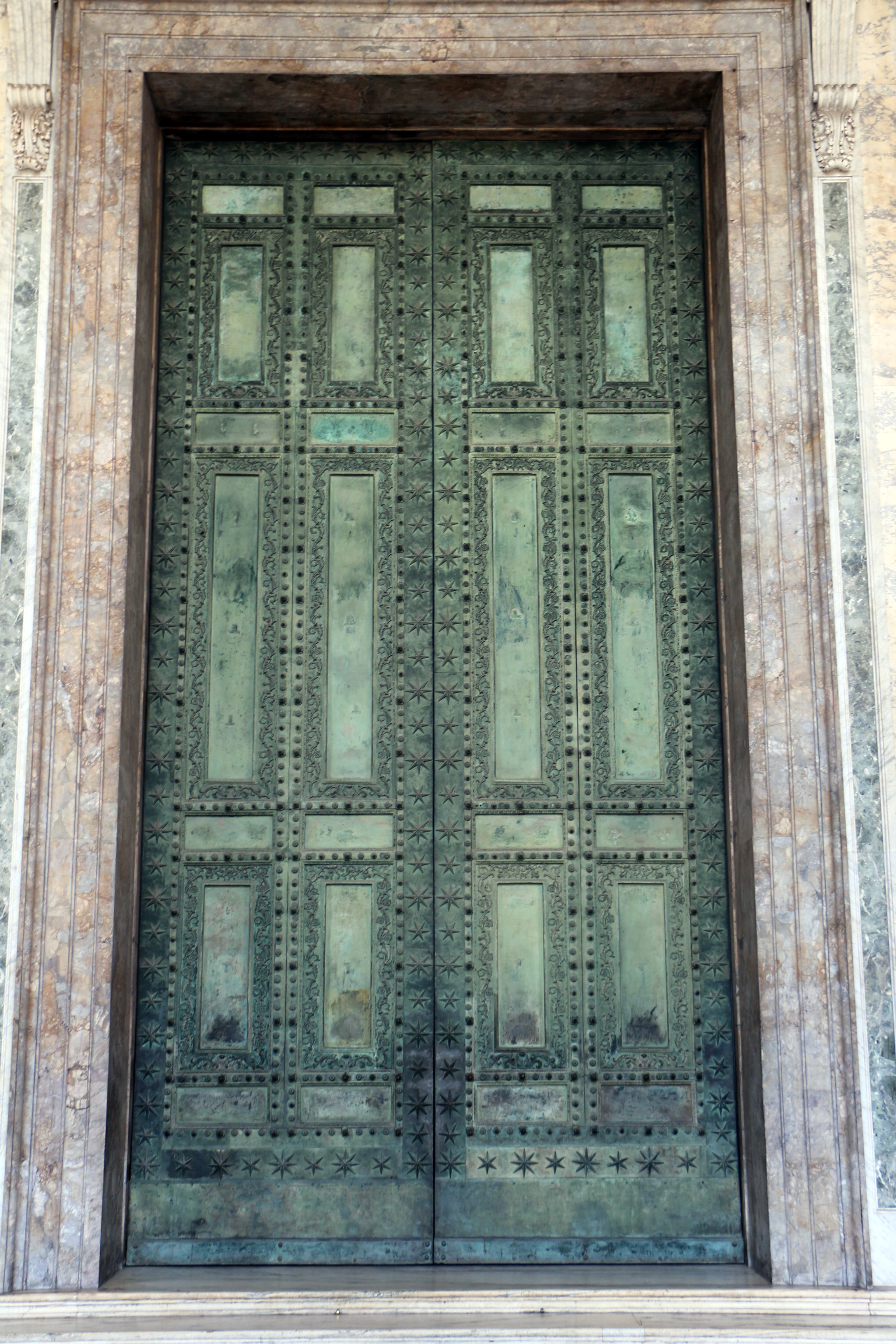 San Giovanni in Laterano, Rome